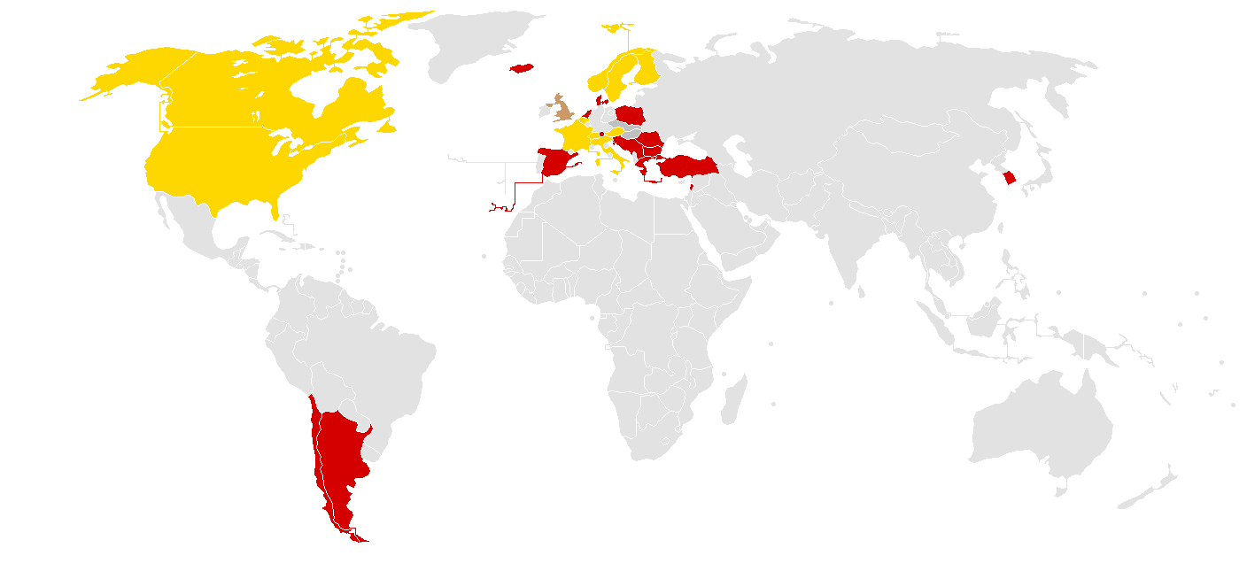 Countries with at least one gold medal Countries with at least one silver medal Countries with at least one bronze medal Countries that didn't get any medal Countries that did not participate